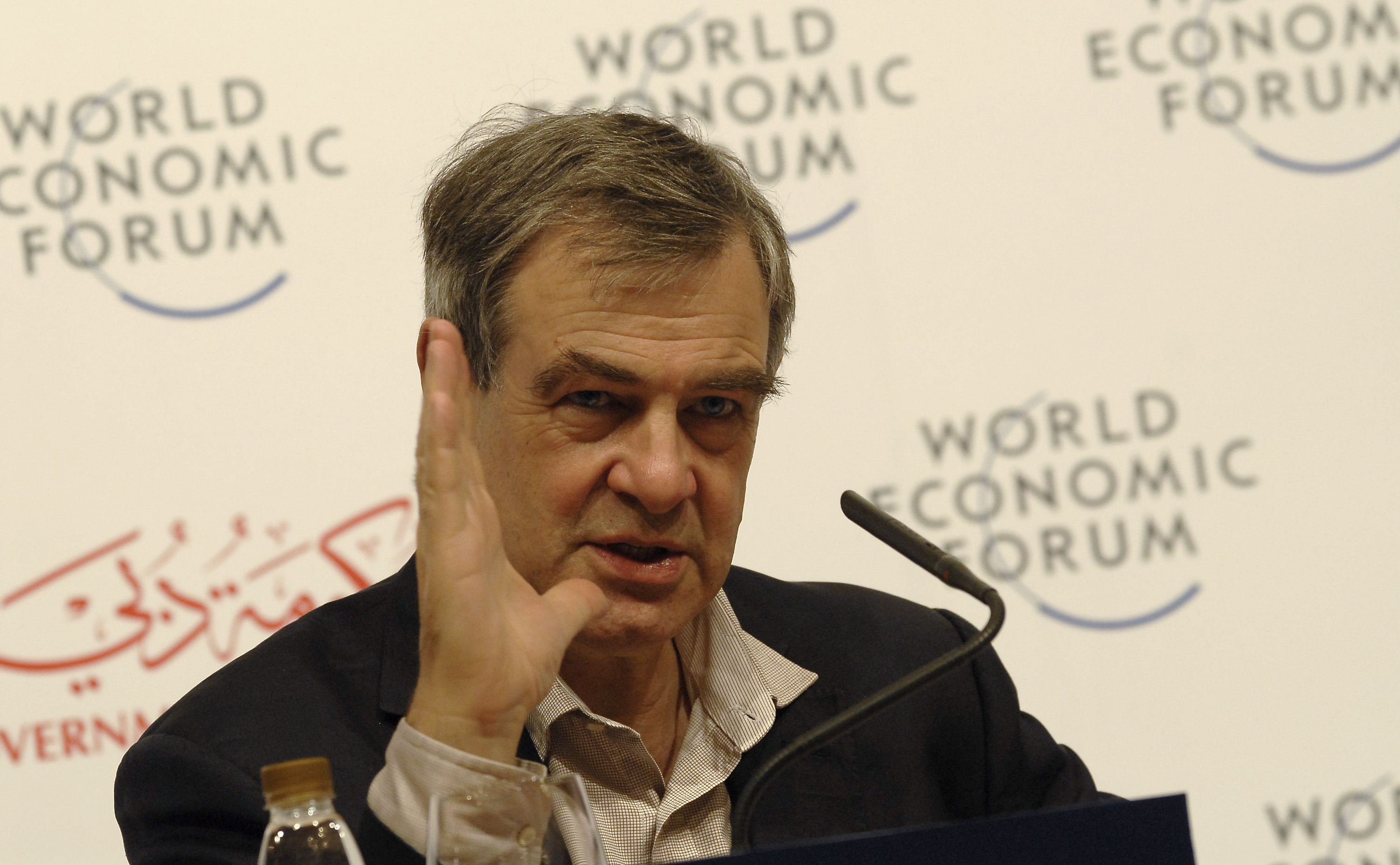 DUBAI, UNITED ARAB EMIRATES, 20NOV09 - Sir John Gieve speaks at a press conference at the World Economic Forum's Summit on the Global Agenda 2009 held in Dubai, 20-22 November 2009. Copyright (cc-by-sa) © World Economic Forum ( /Photo Norbert Schiller)